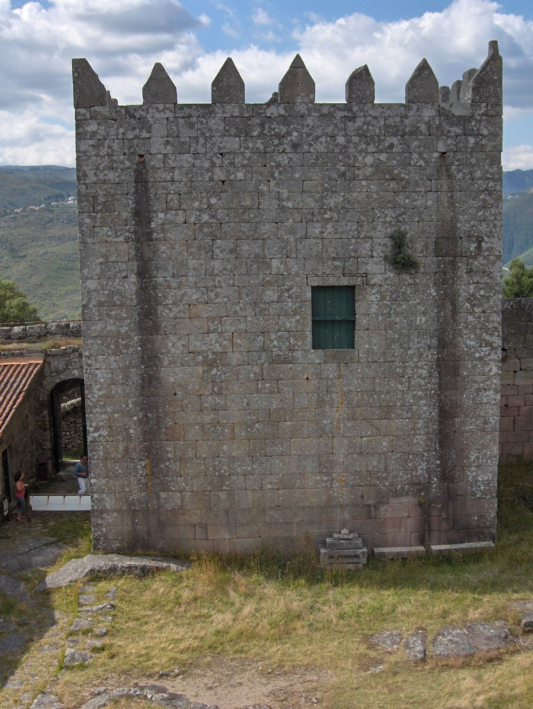 Keep of Lindoso Castle, Portugal